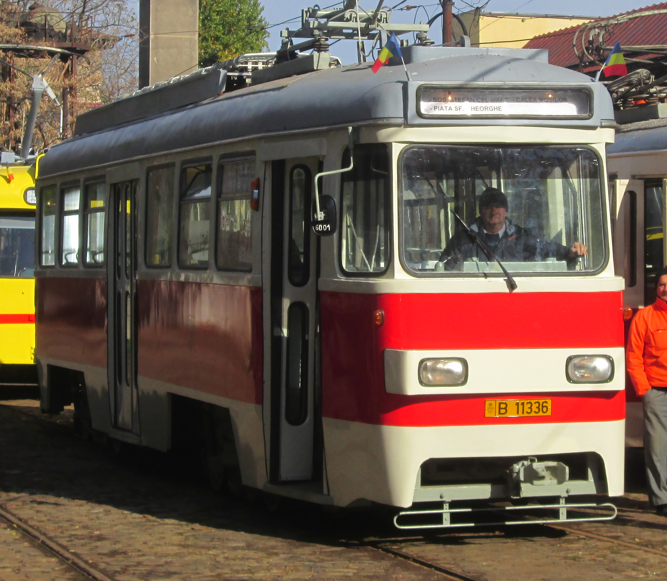 Tram number 6001 (type Electroputere/V3A, manufactured 1976, prototype) in Victoria tram depot. This is essentially a 1970s modernisation of the Electroputere V54 (1955-1959) using V3A equipment, retired 1995/1999-2000.